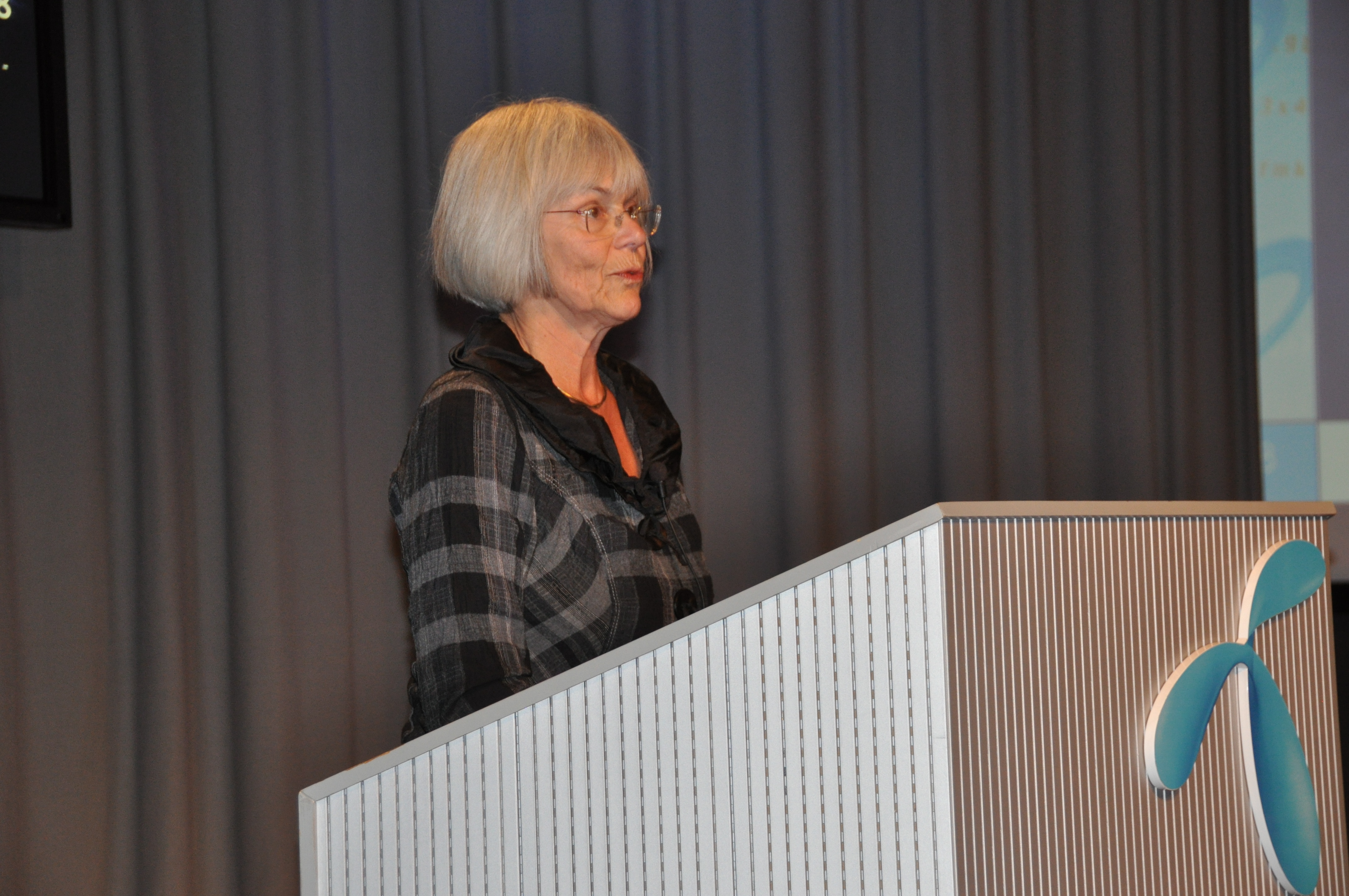 Minister of Science and Research, Tora Asland (SV), Norway